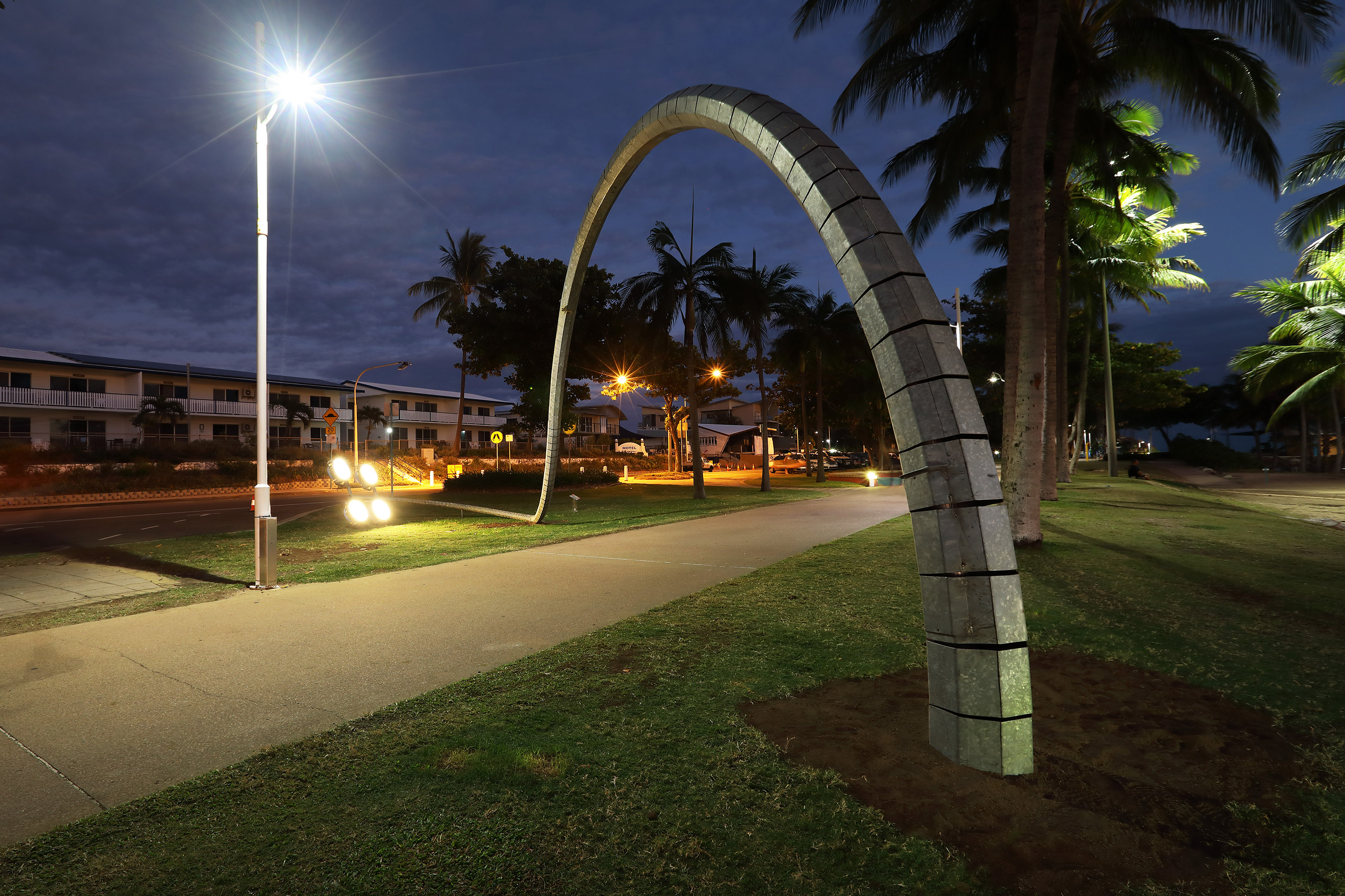 Light Falls is a 20meter light pole reconfigured to fall across The Strand walkway in Townsville, Australia